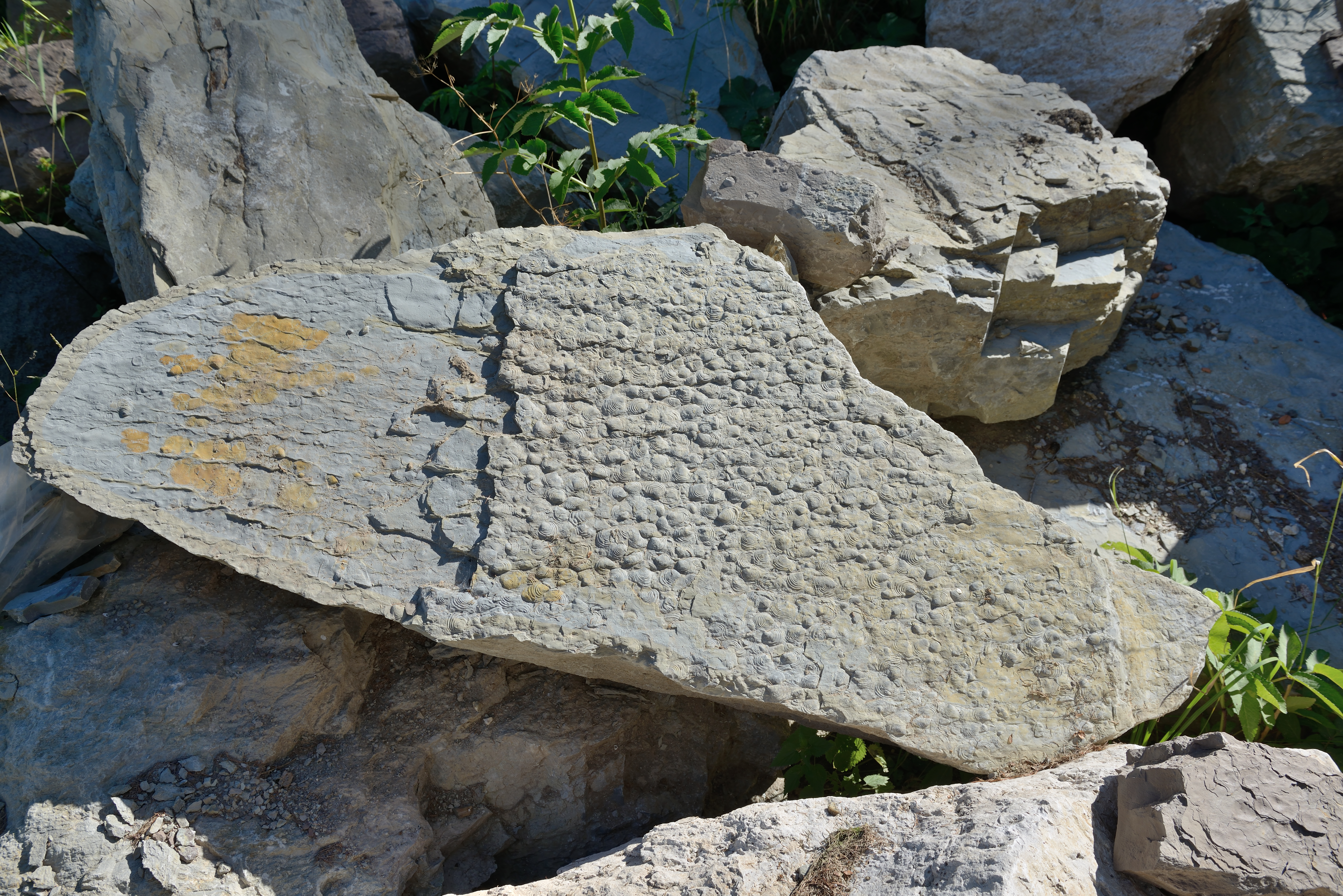 The fossil bivalve Claraia clarai from the Werfen Formation in the Dolomites - Slate ca 100 x 45 cm.